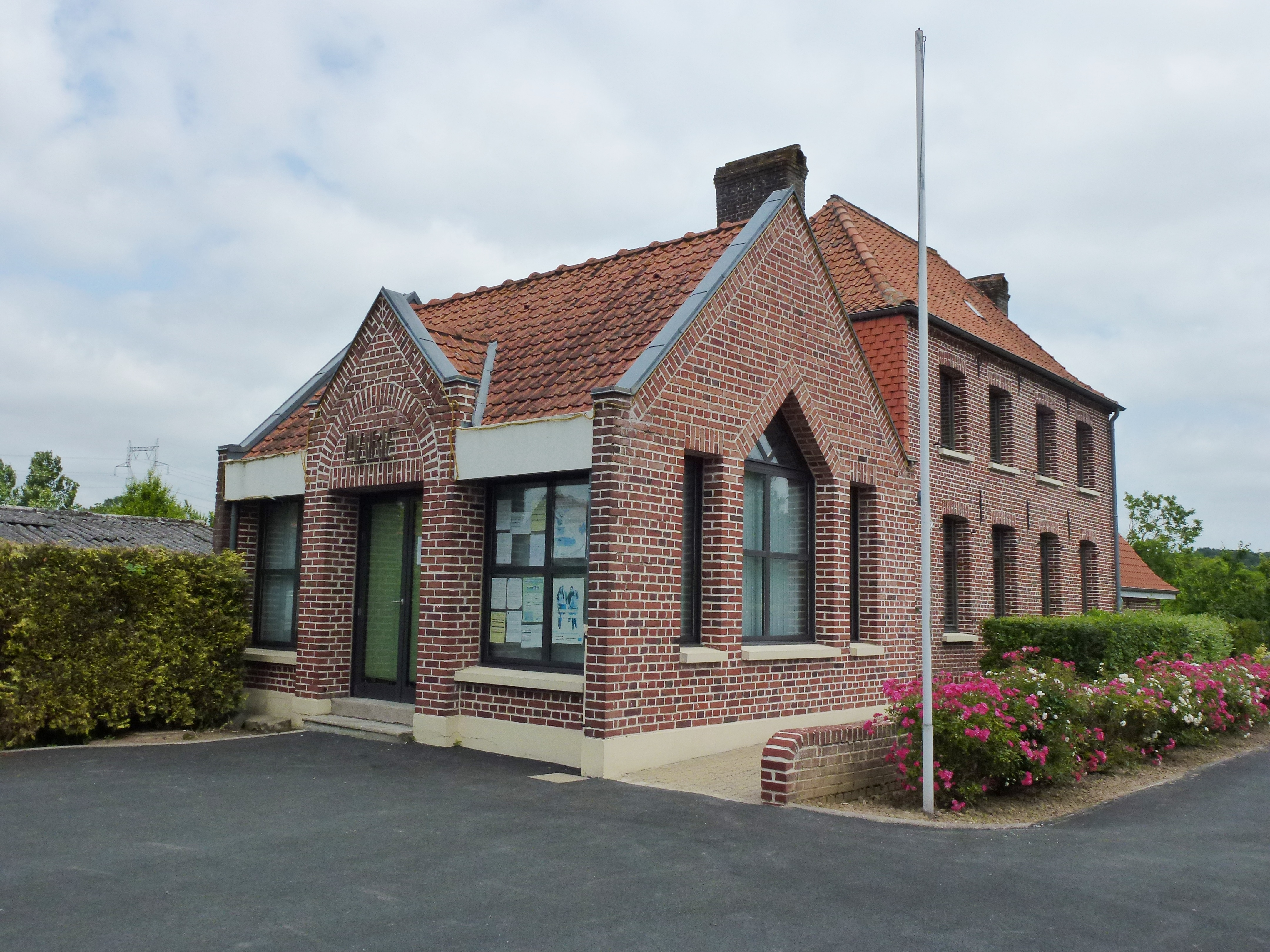 Mazinghem (Pas-de-Calais) mairie